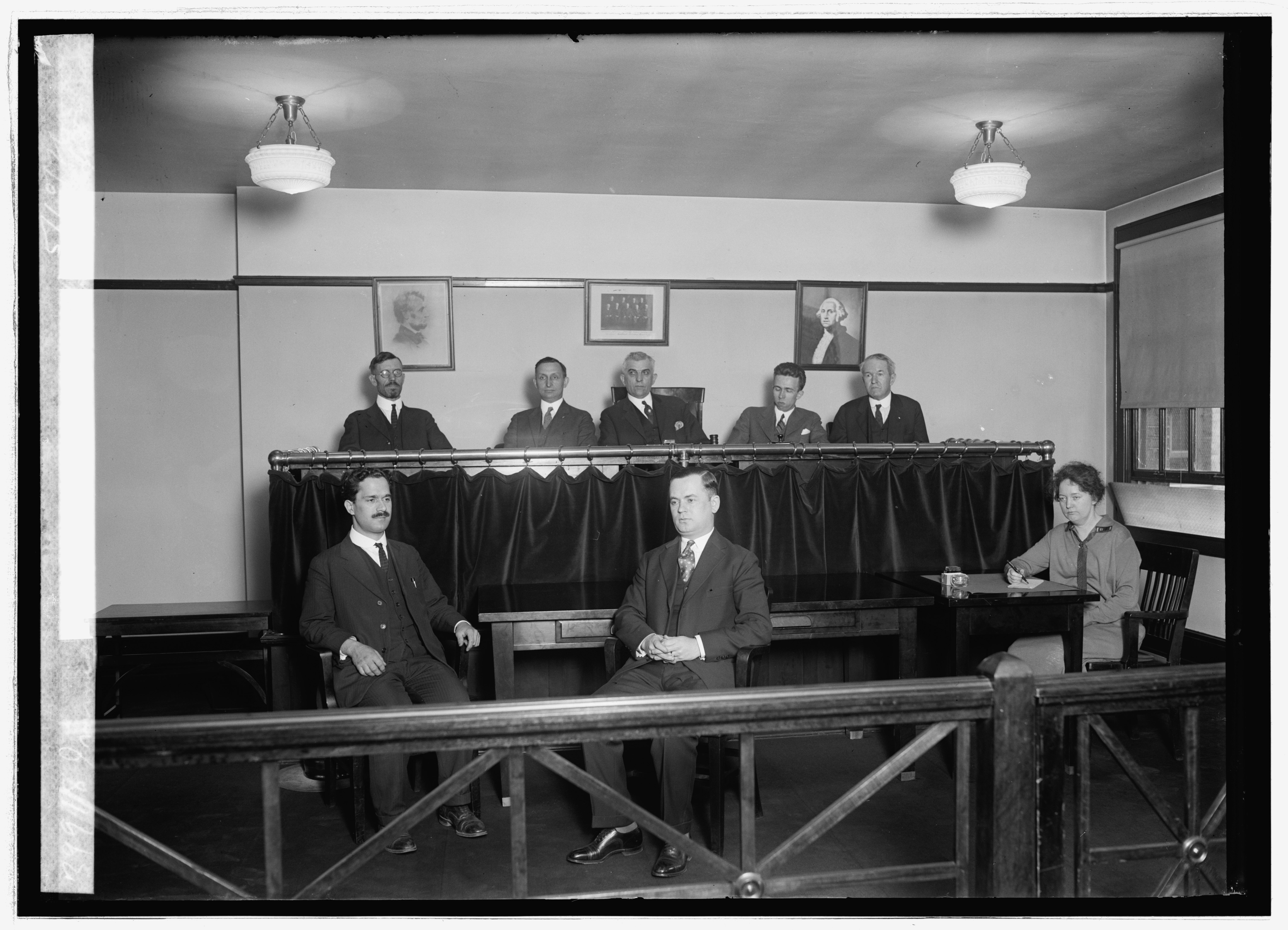 Title: Immigration Court of Labor Dept., 5/10/26 Abstract/medium: 1 negative : glass ; 5 x 7 in. or smaller